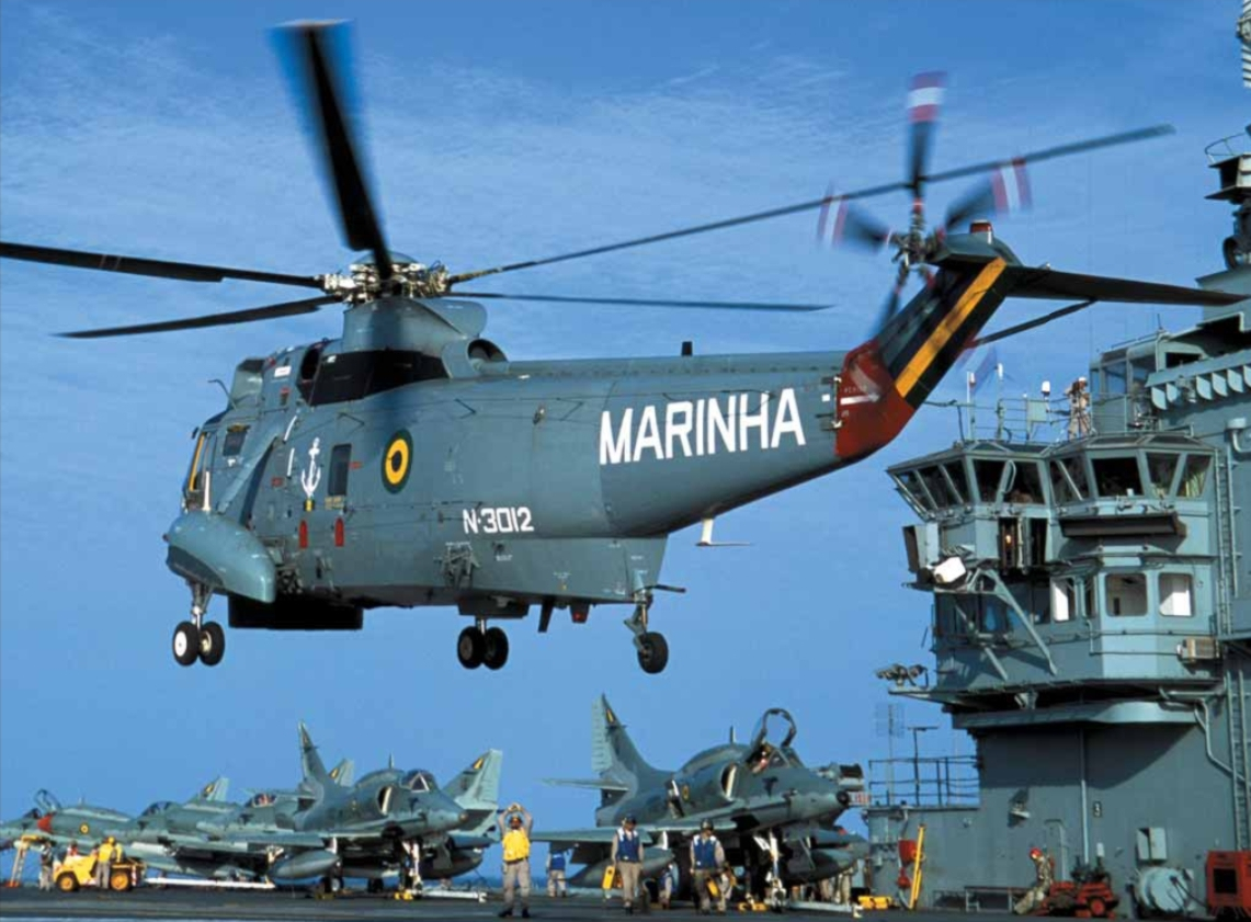 A Brazilian Navy Sikorsky SH-3D Sea King landing aboard the aircraft carrier Saõ Paulo (A12), in 2003. Note the McDonnell Douglas AF-1 Skyhawk fighters (refurbished A-4KU) in the background.